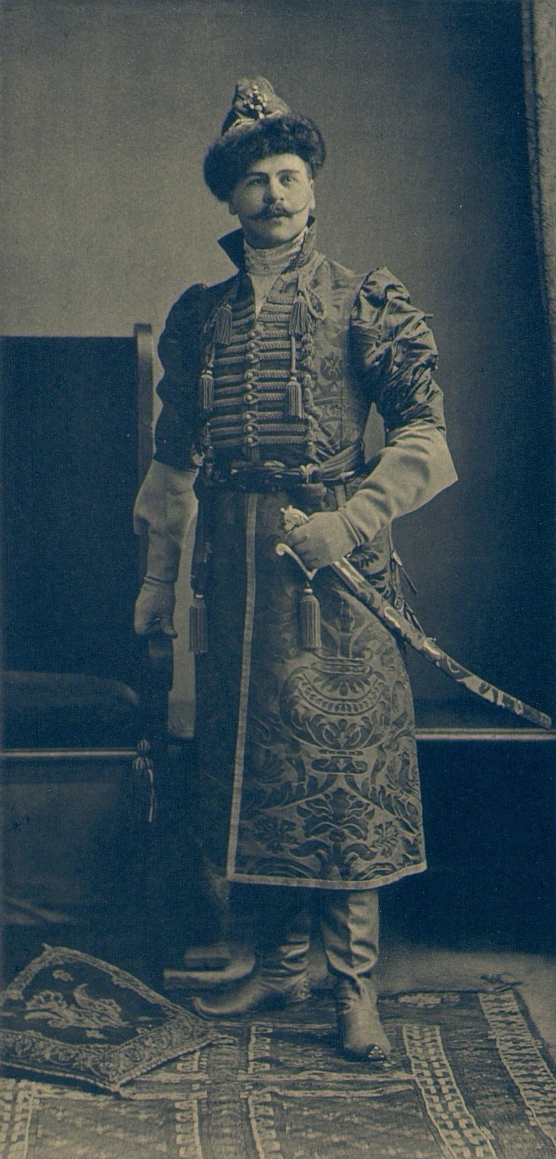 Alexandr Etter